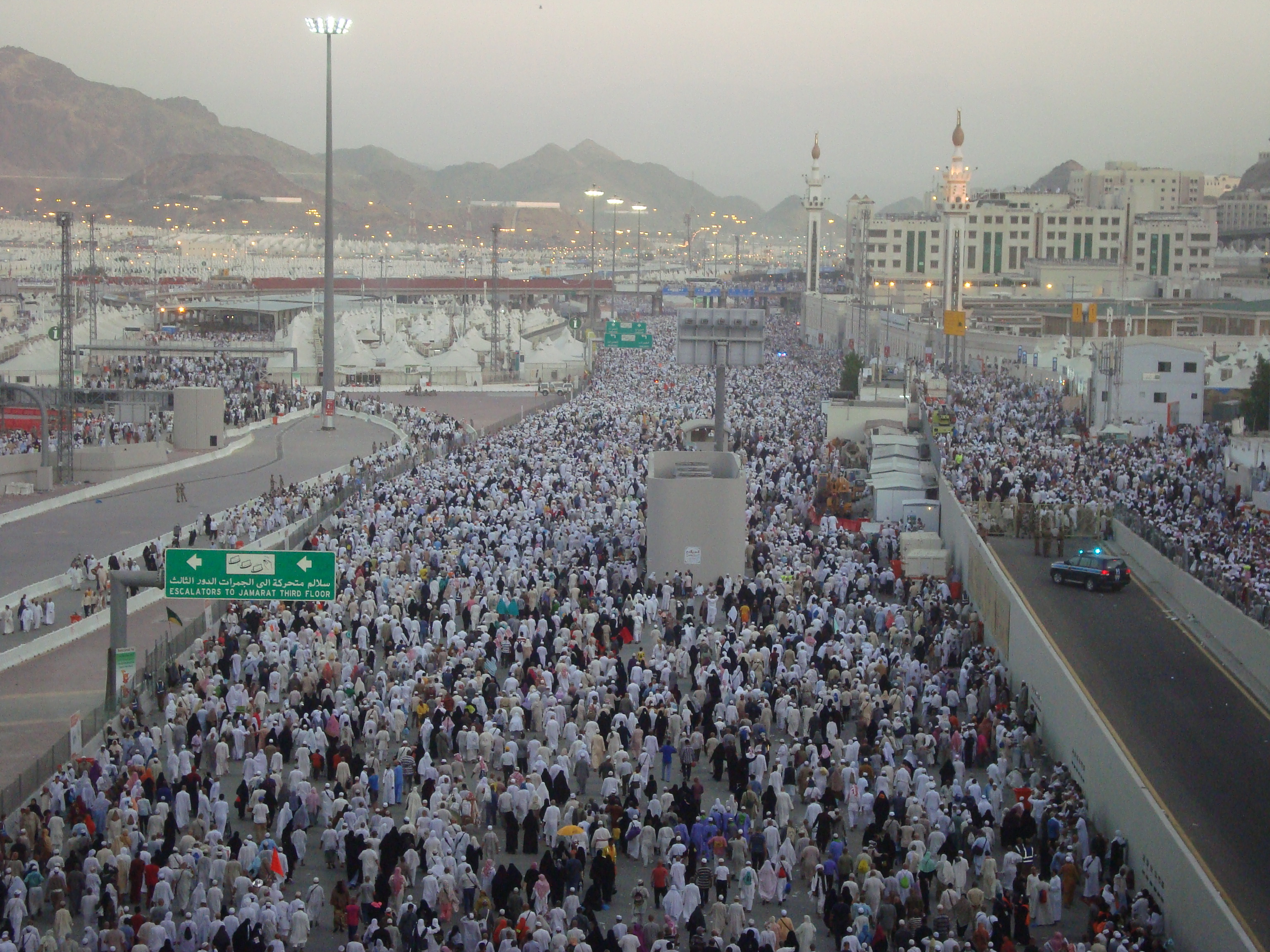 The way to Jamarat Bridge